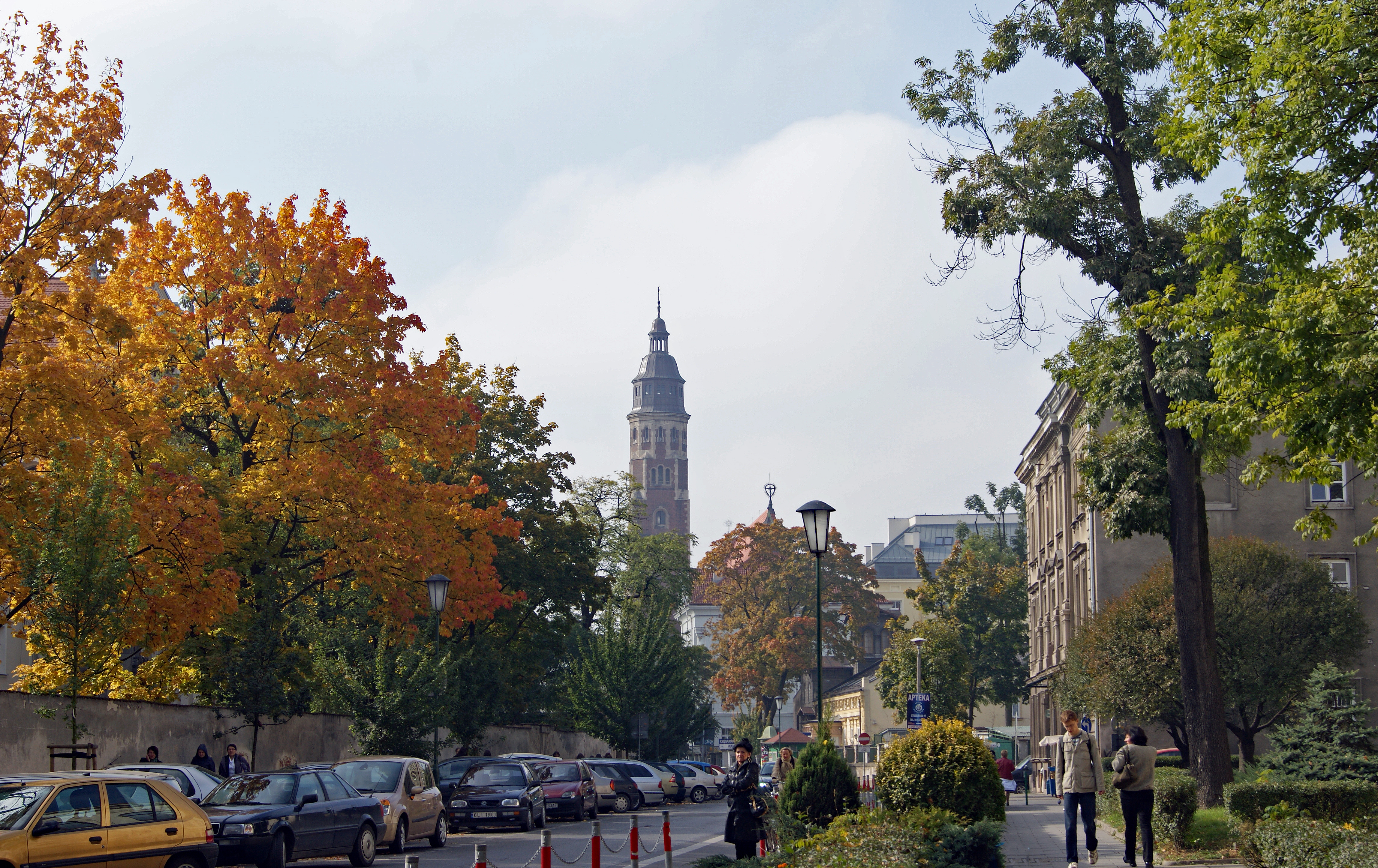 Kopernika street (west side),Krakow,Poland